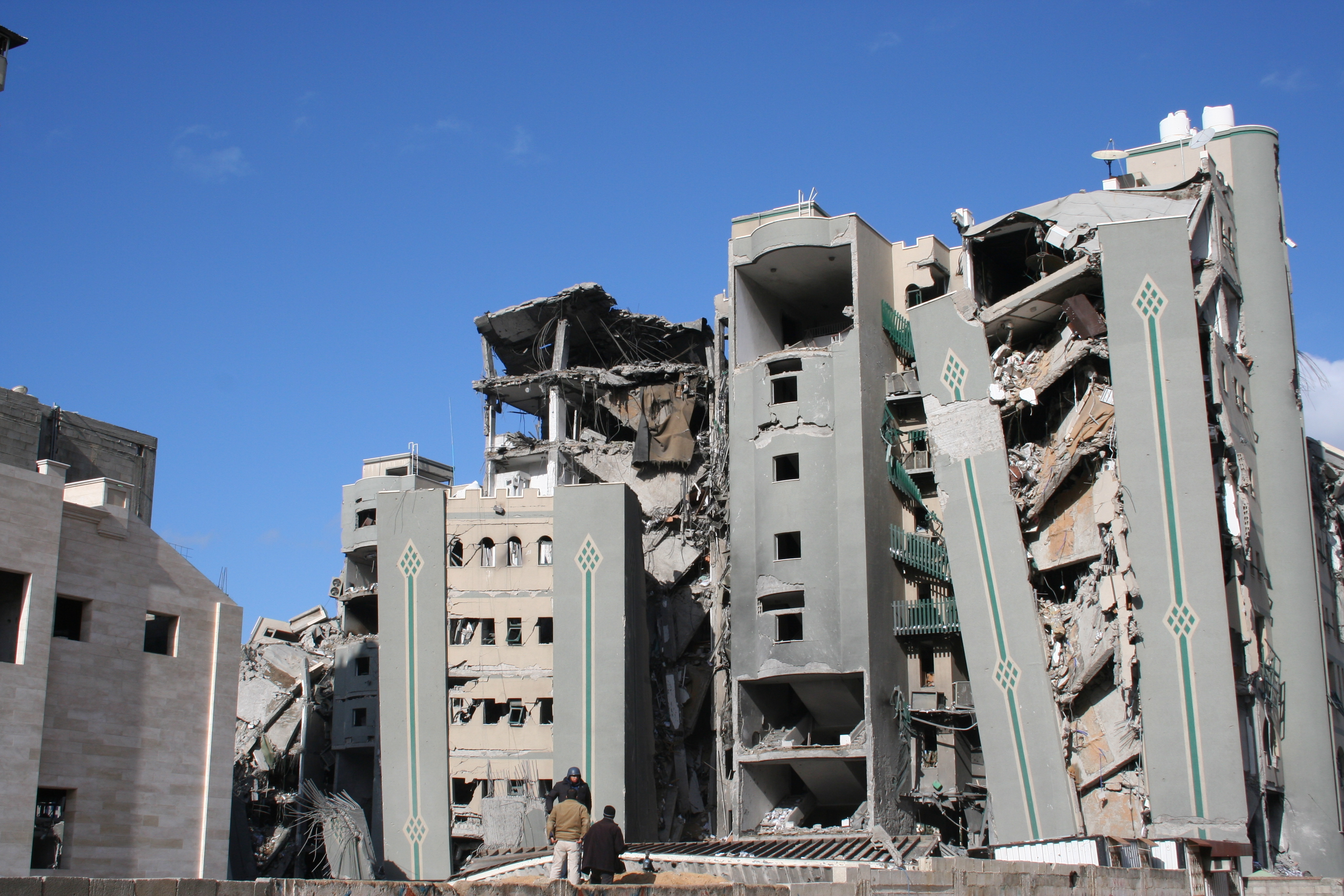 Hundreds of buildings critical to Gaza, like this one were completely destroyed by Israel. Because Gaza is so densely populated, when buildings like this one where hit, the entire neighborhood and nearby homes and apartment buildings would also be destroyed.